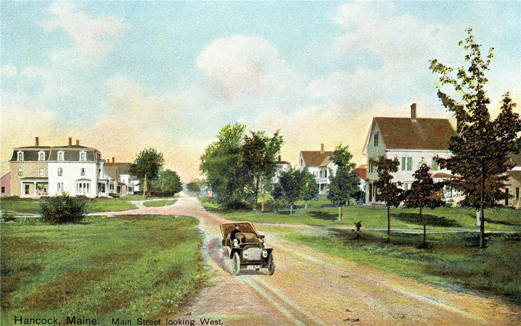 View of the main street (U.S. Route 1) looking west, Hancock, Maine